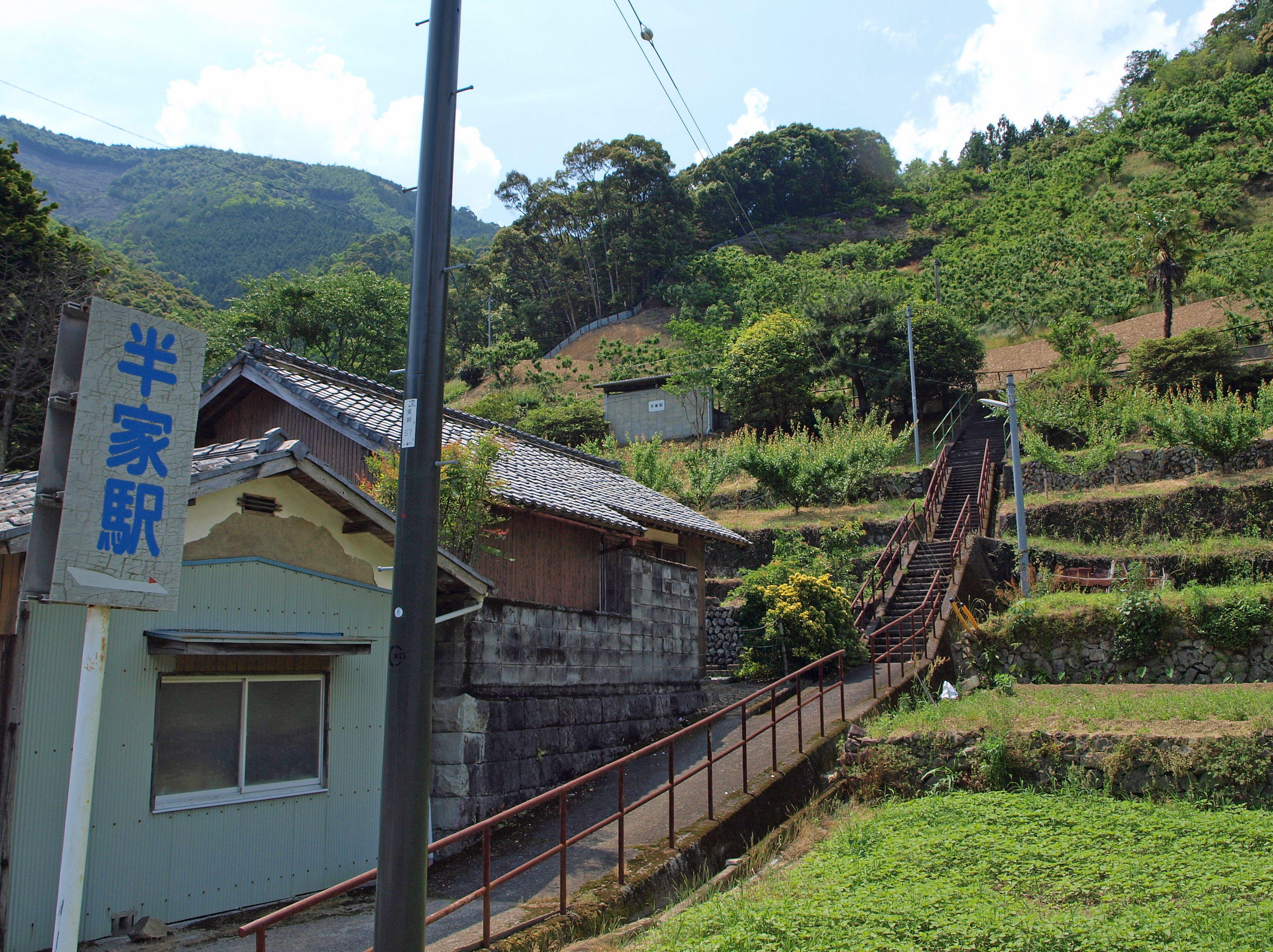 Hage station, Yodo-line, JR Shikoku, Japan